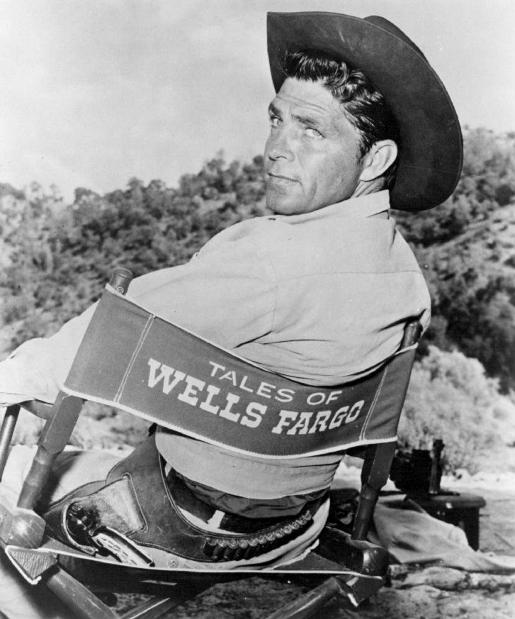 Photo of Dale Robertson on the set of the television program Tales of Wells Fargo.